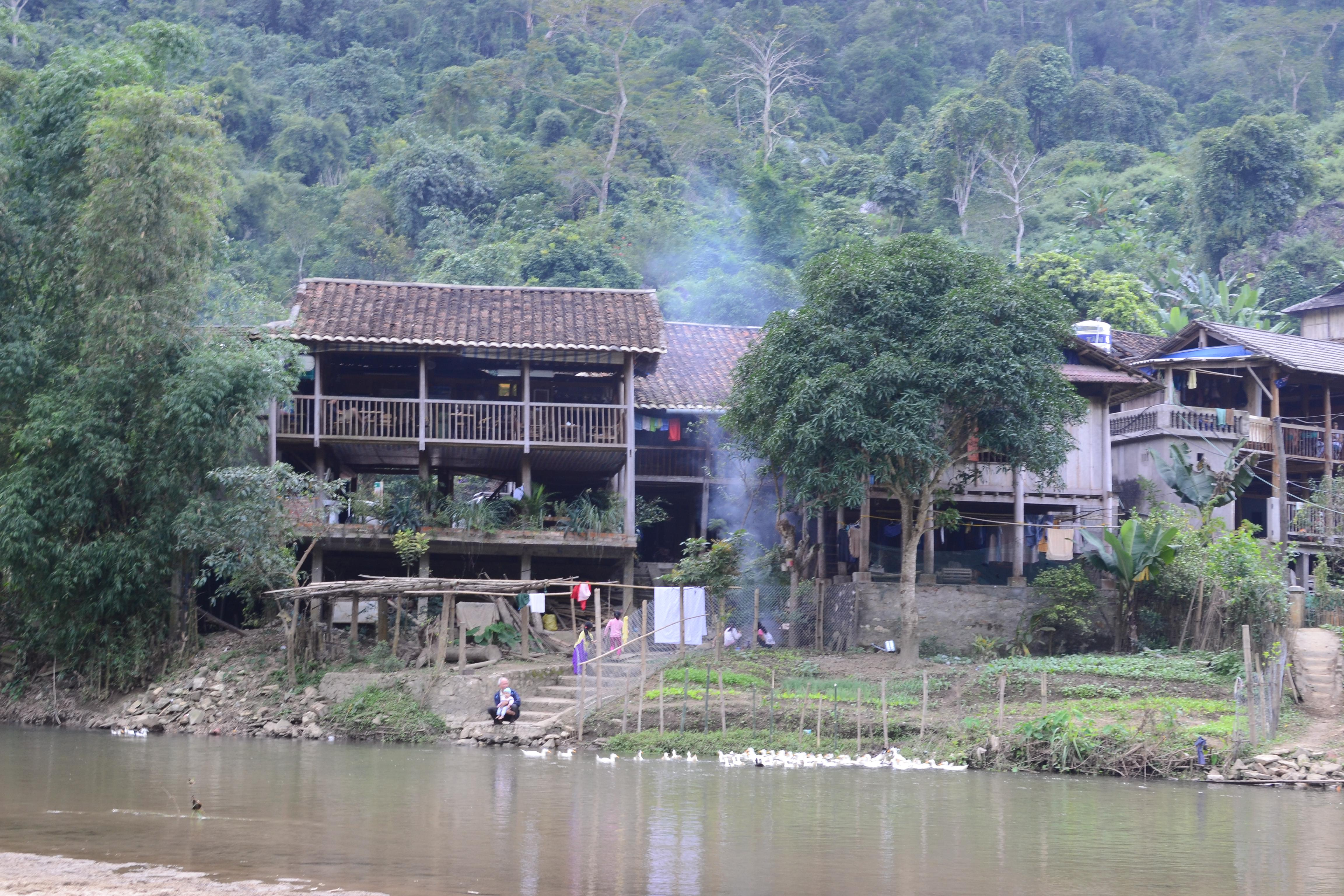 One small house of the Tay people on the bank of the river